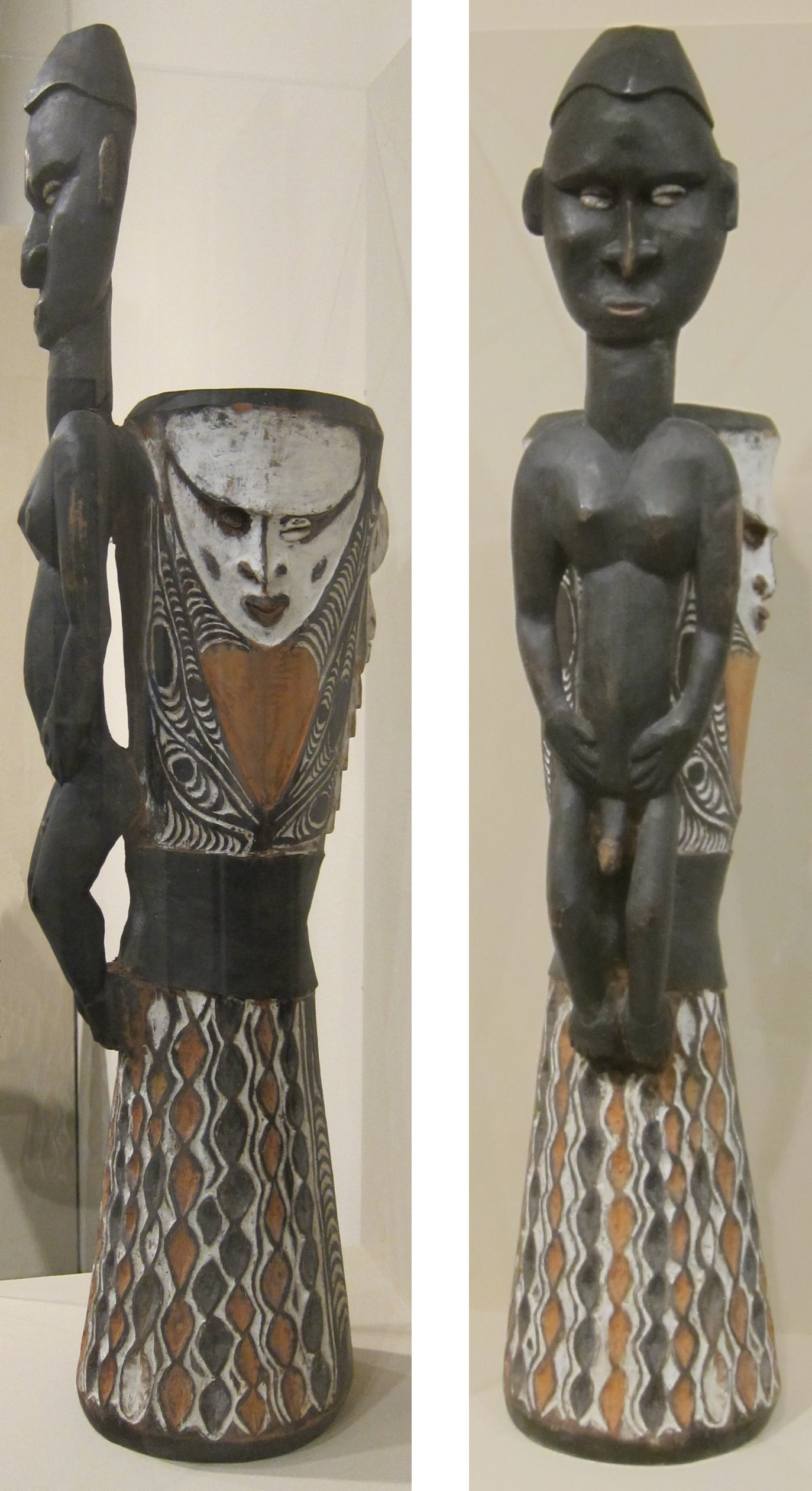 Ceremonial water drum, Papua New Guinea, Chambri Lakes region, carved wood, natural pigments and cowrie shells, Honolulu Academy of Arts